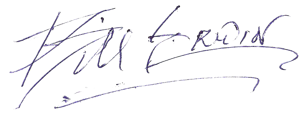 Bill Erwin's signature